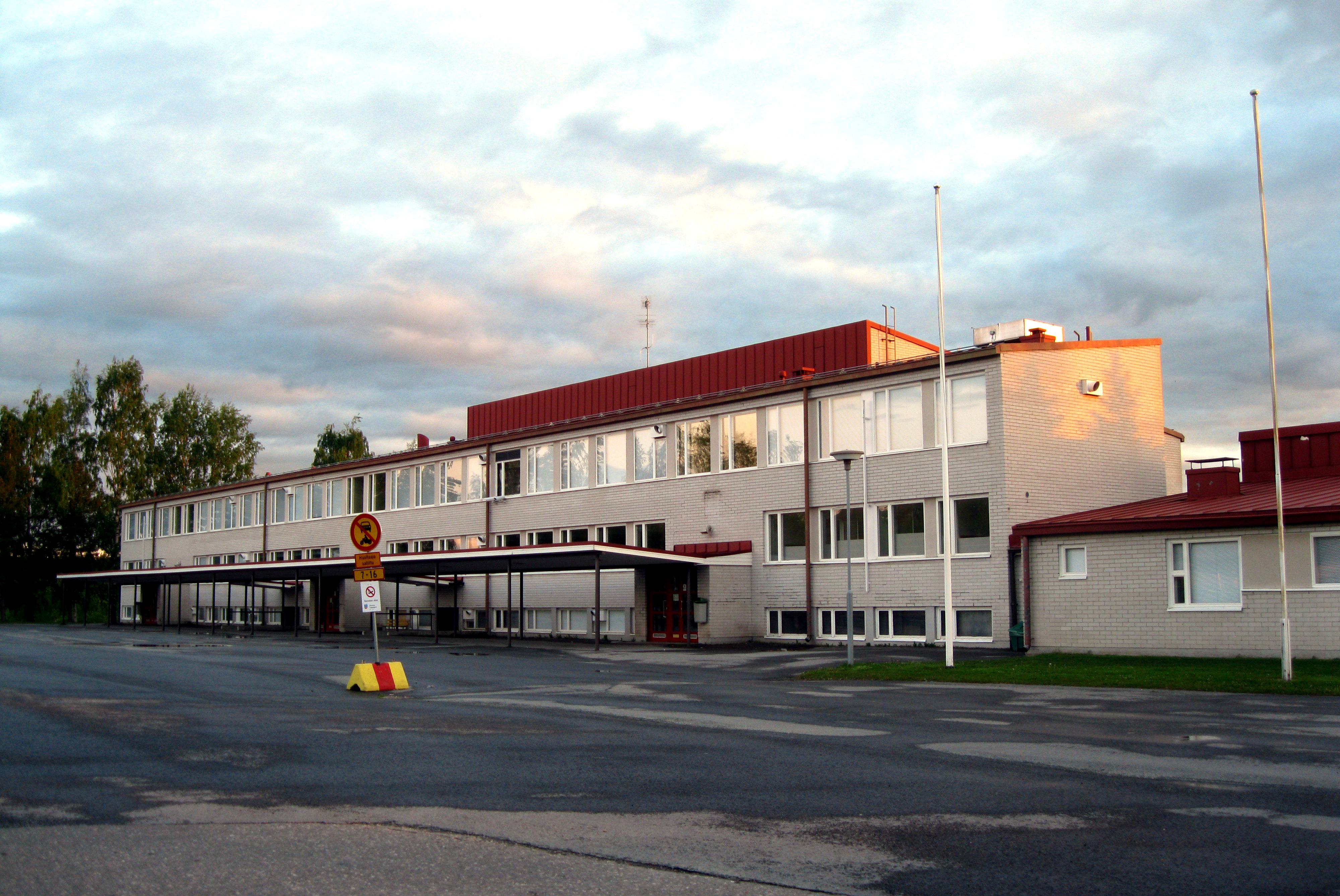 School in Lappajärvi.